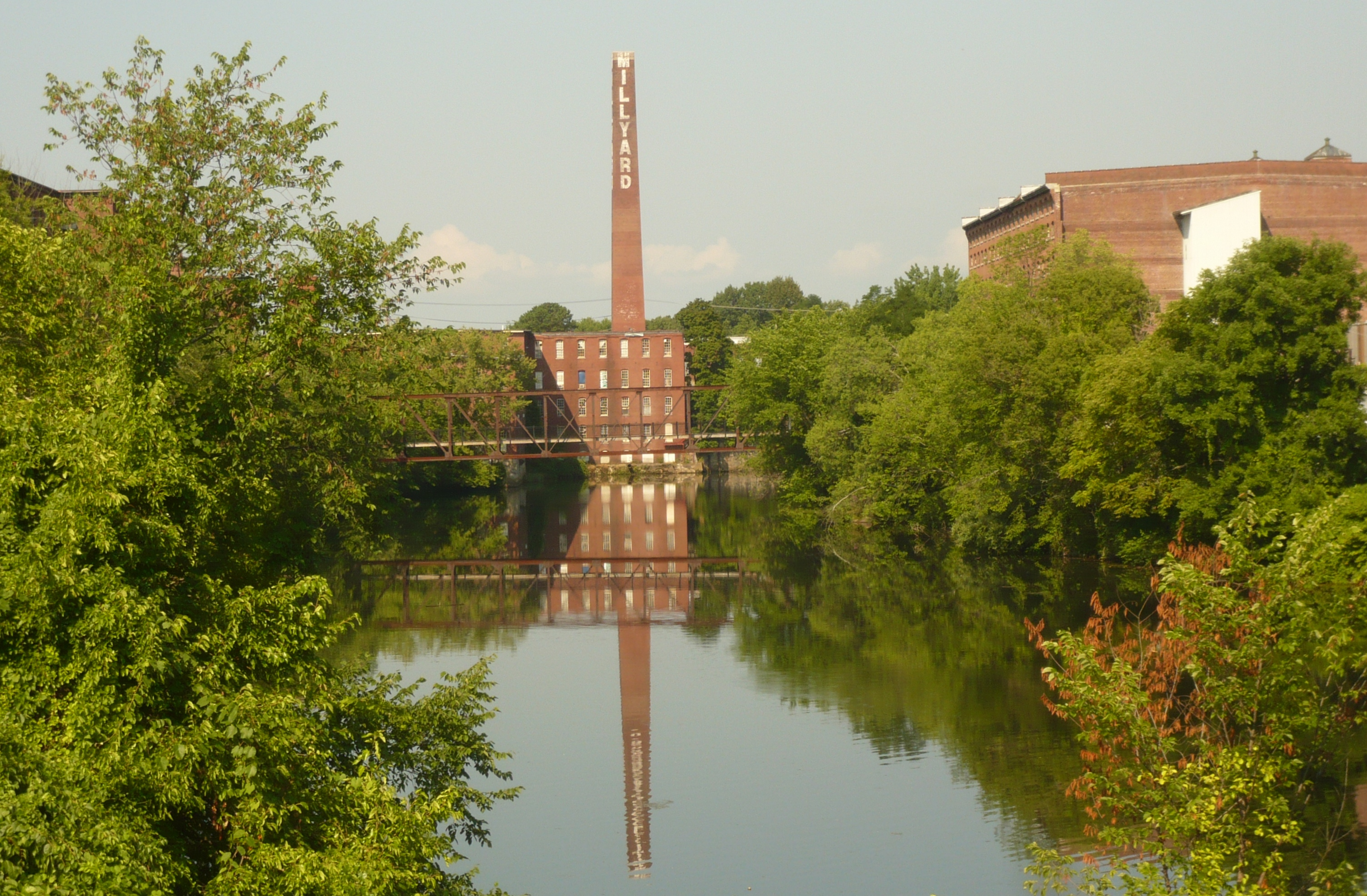 Nashua Millyard with truss bridge to North cotton storehouse, part of the Nashua Manufacturing Company Historic District